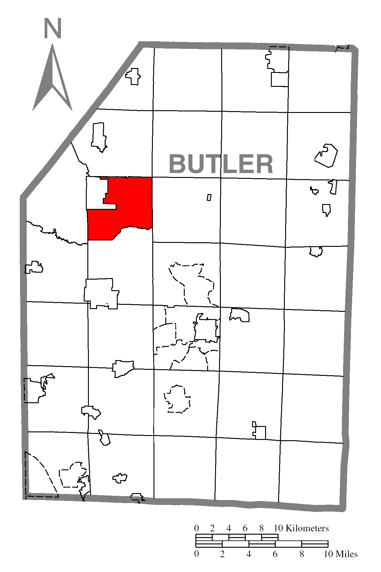 A map of Butler County showing Brady Township, Pennsylvania (alternate) highlighted on the map.